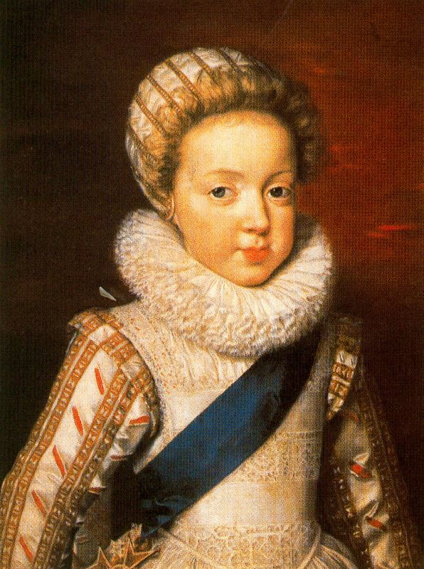 Portrait of Gaston of Orleans (1608-1660)